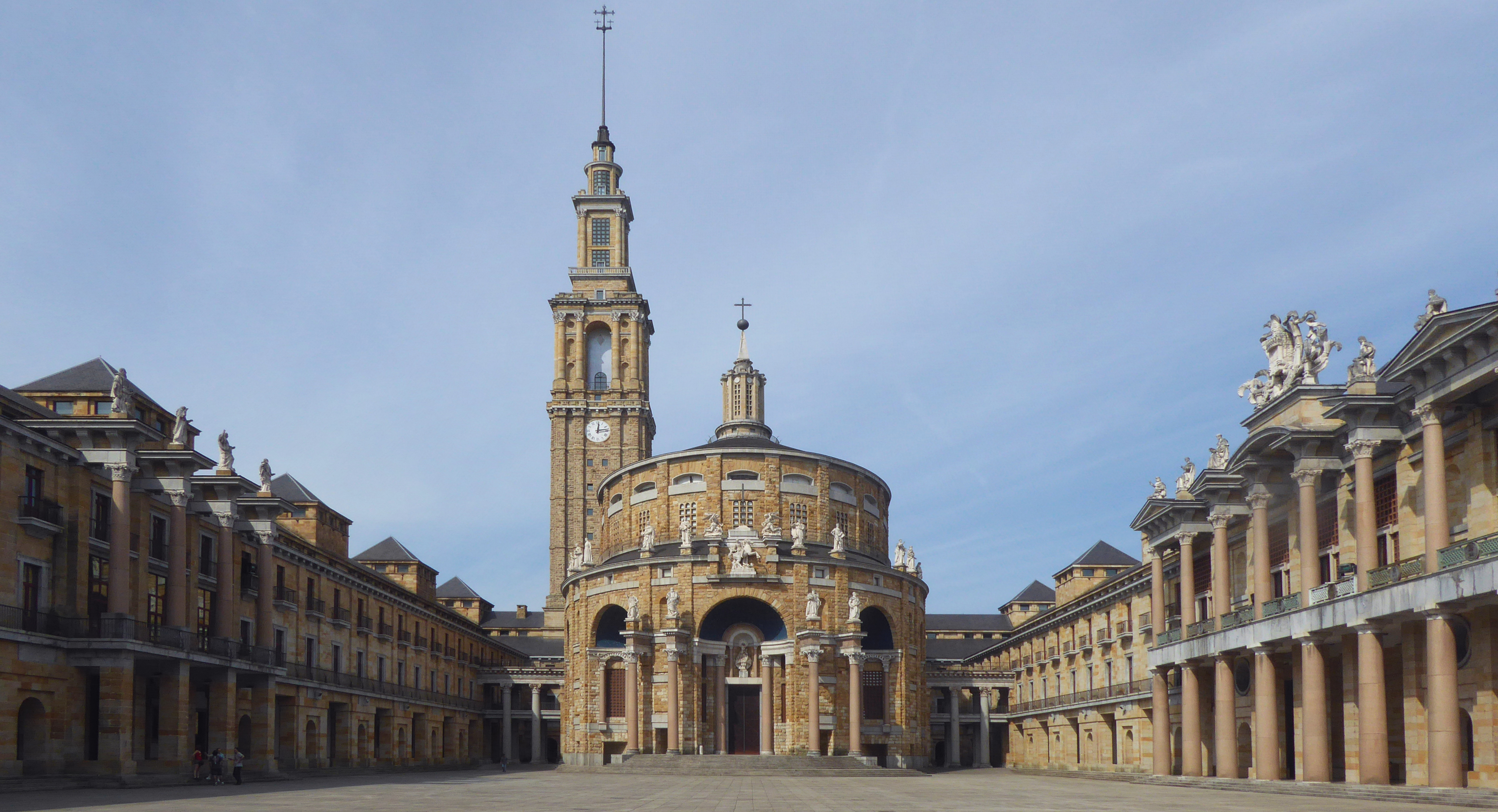 Circular church inside building ensemble of Universidad Laboral de Gijon with rectangular architecture outside Universidad Gijon Asturien Spanien Foto Wolfgang Pehlemann P1060137